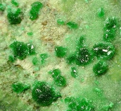 Philipsburgite, Zálesiite, Cornwallite Locality: Gold Hill Mine (Western Utah Mine), Gold Hill, Gold Hill District (Clifton District), Deep Creek Mts, Tooele County, Utah, USA (Locality at ) Size: 5 x 3.7 x 1.3 cm. This is a rare philipsburgite from the famous old mines in Utah. These small specks are beautiful. Zalesiite and cornwallite are in association. Ex. Martin Zinn Collection.